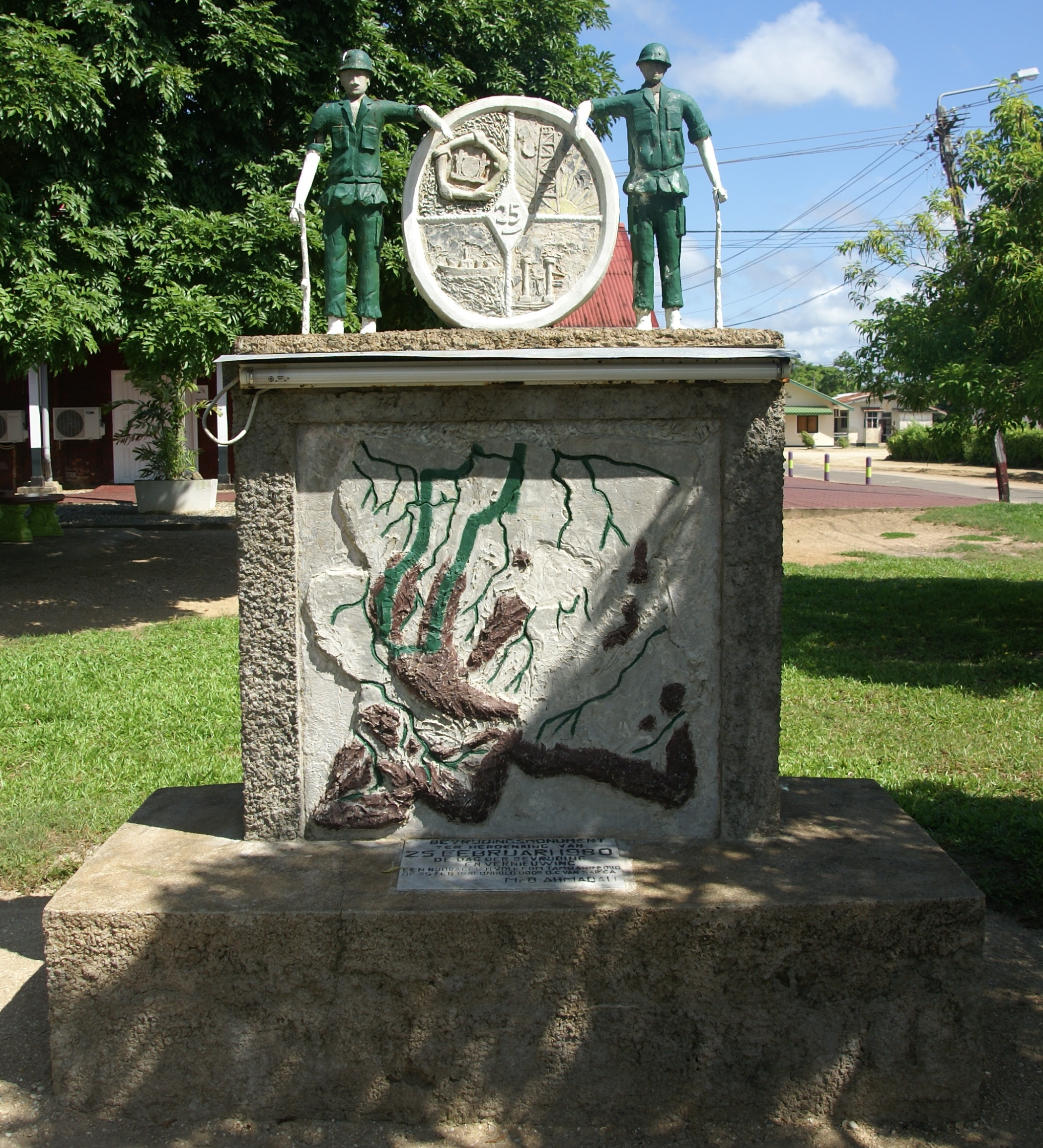 'Liberation Monument', Groningen, Surinam. 1981.